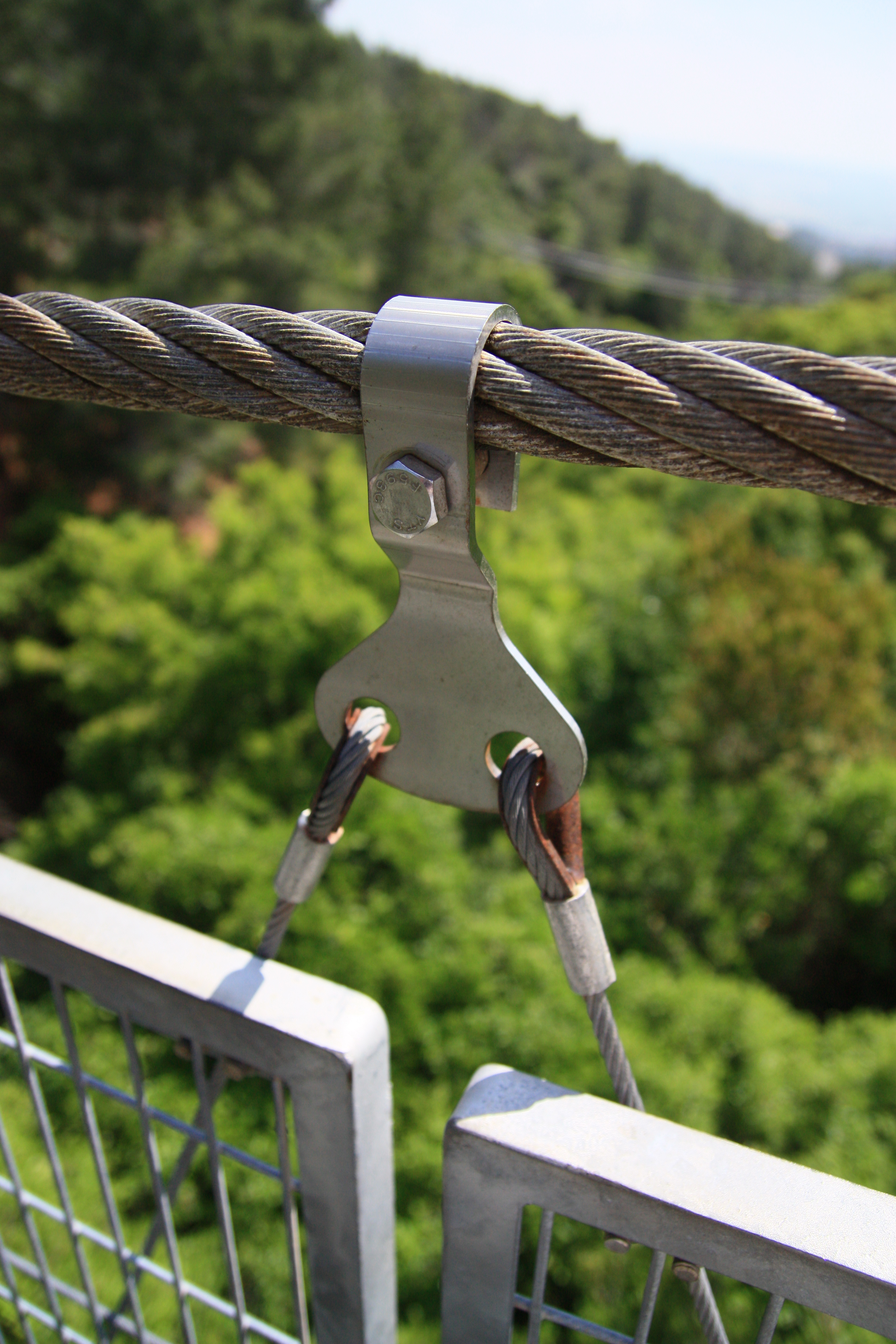 Mount Carmel